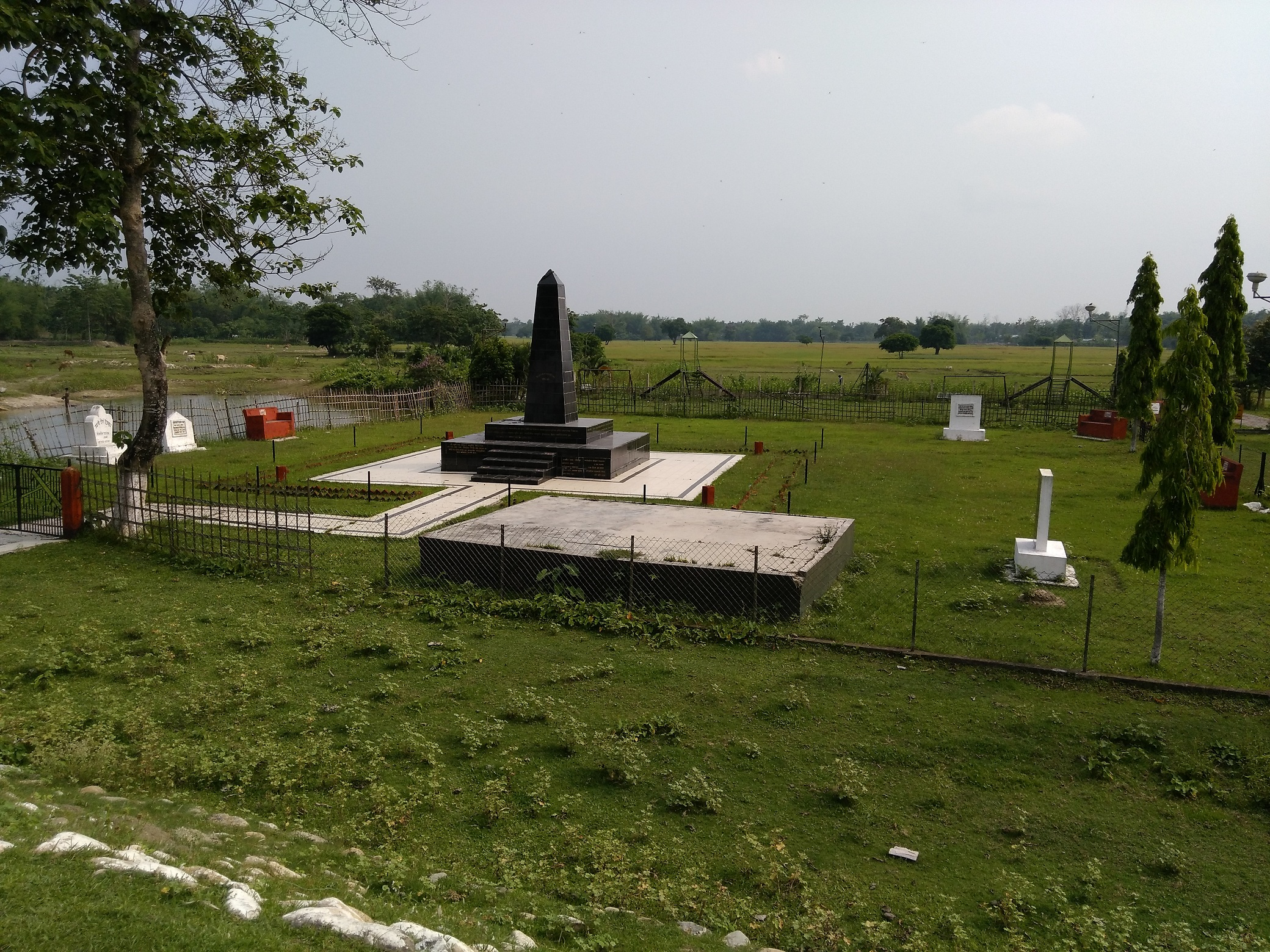 Pillar made in the memory of 1894 martyr's